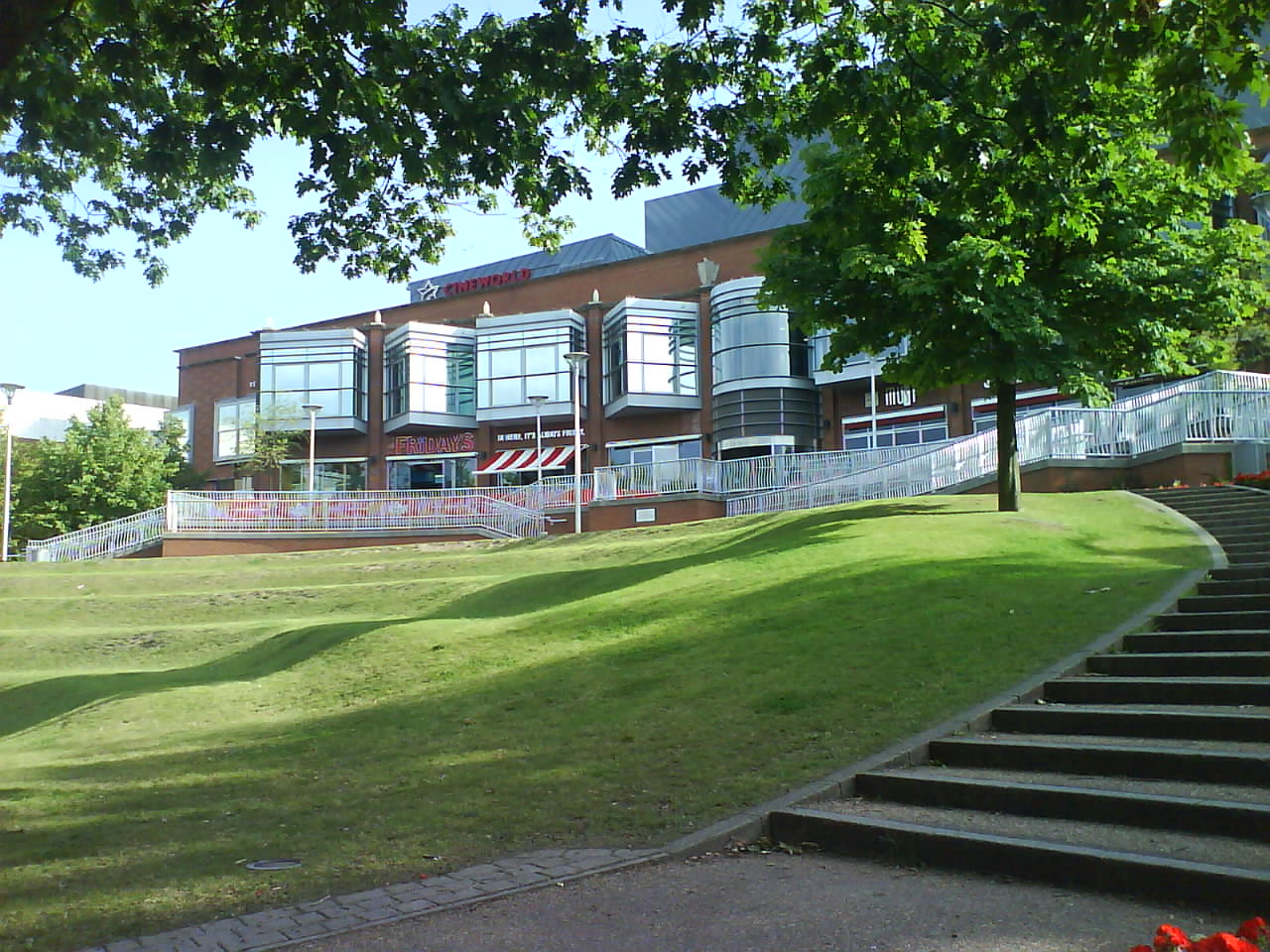 One of the Entrances to Touchwood, Solihull